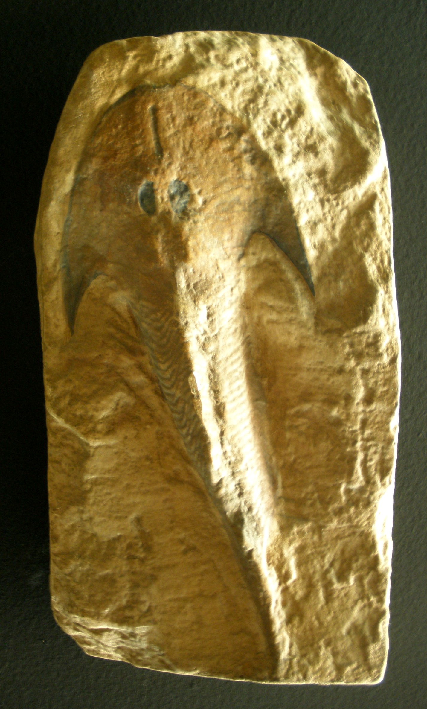 Took the photo at Museo di Storia Naturale di Bergamo